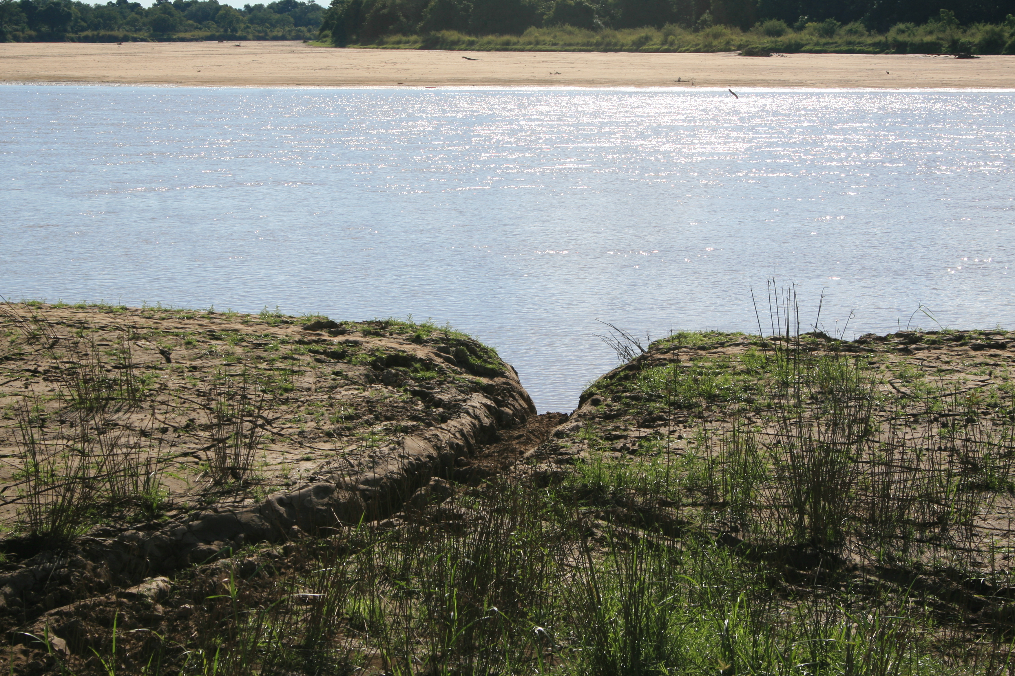 Hippopotamus Trail, Luangwa River, Zambia